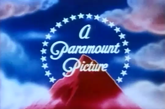 Classic logo for Paramount Pictures.